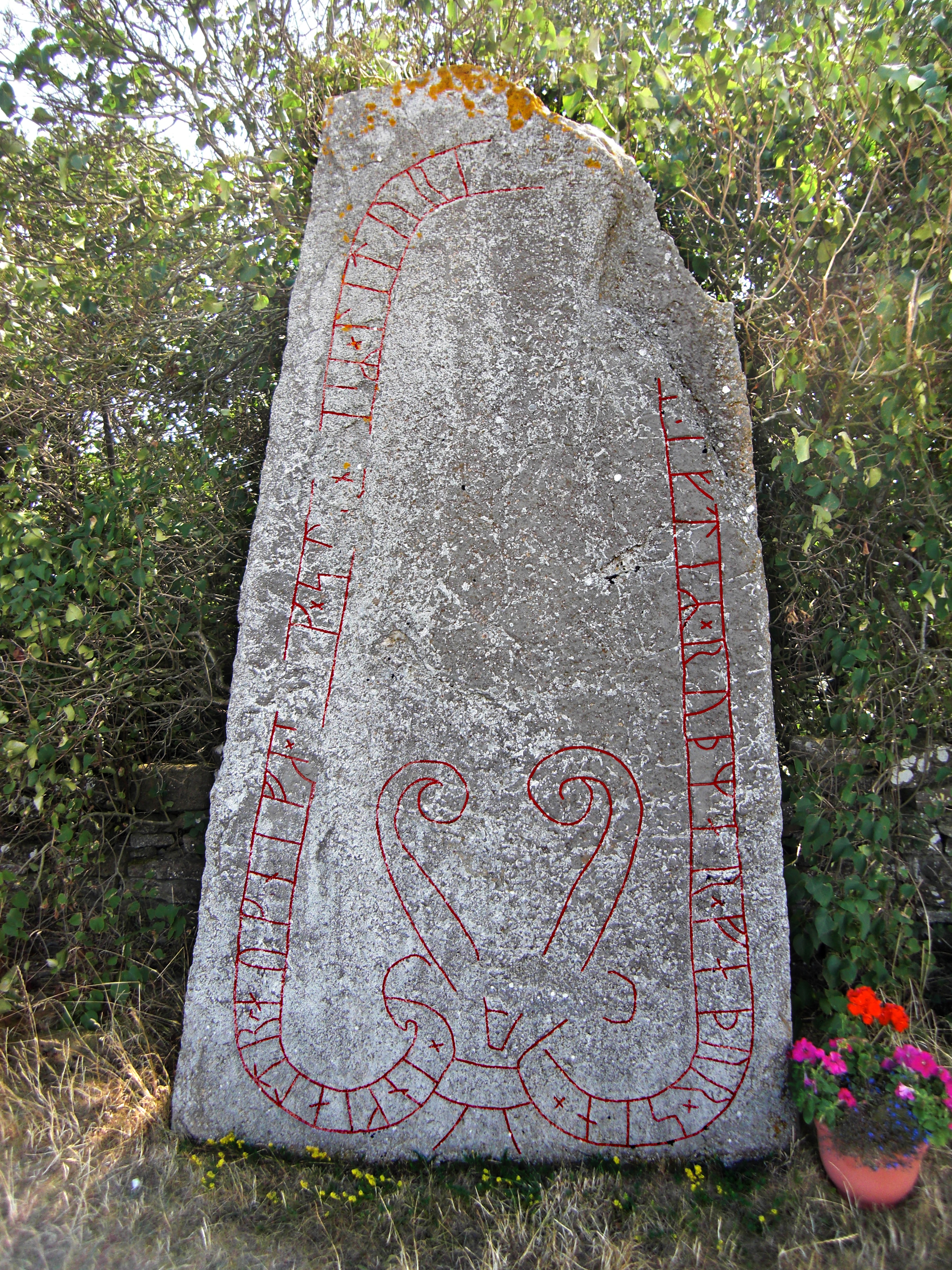 The Seby Runestone, Segerstad Parish, Mörbylånga Municipality, Öland, Sweden.